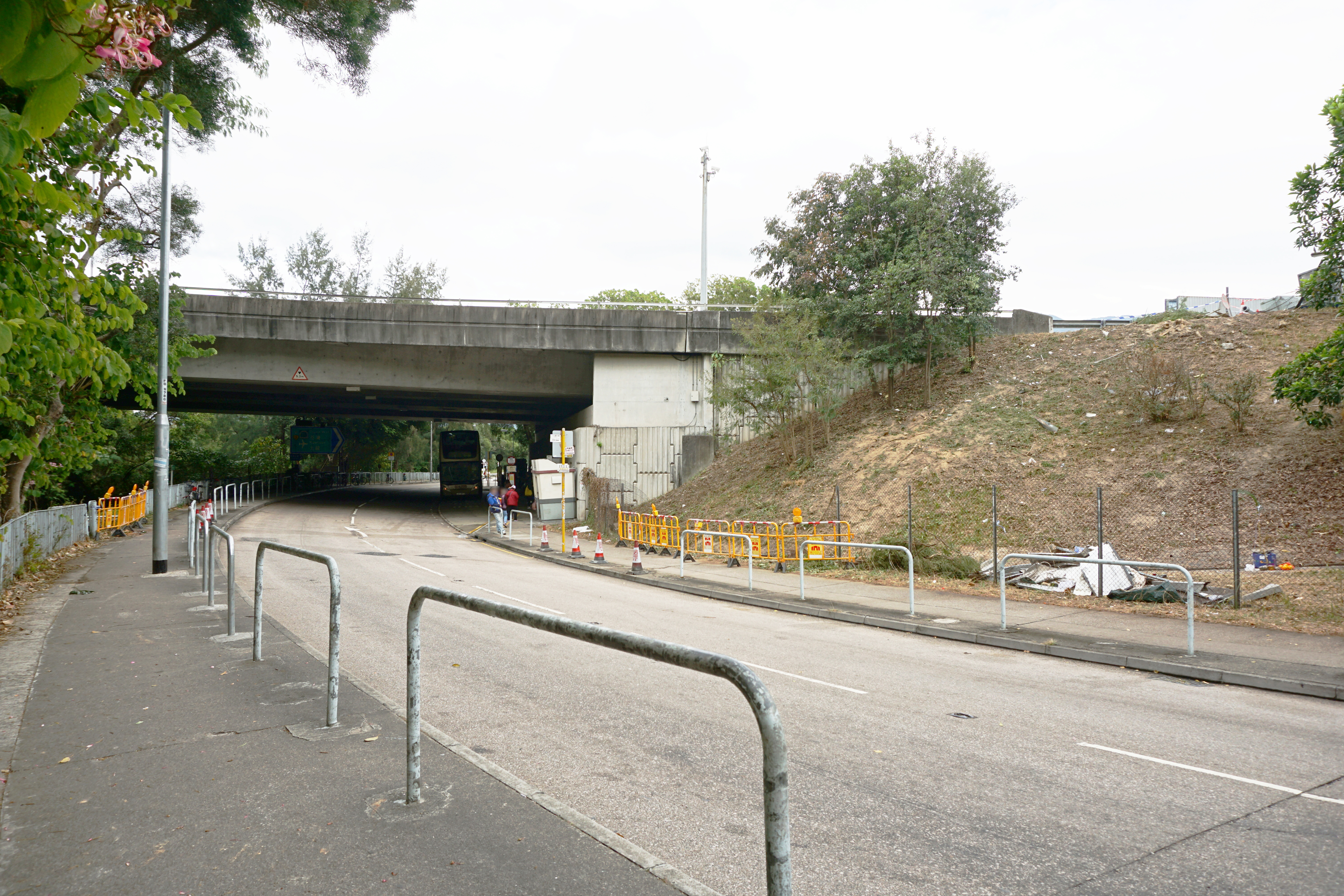 Tai Lam Tunnel Bus Interchange in Pat Heung, Hong Kong.